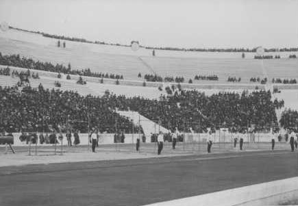 German team on horizontal bars during 1896 Summer Olympics